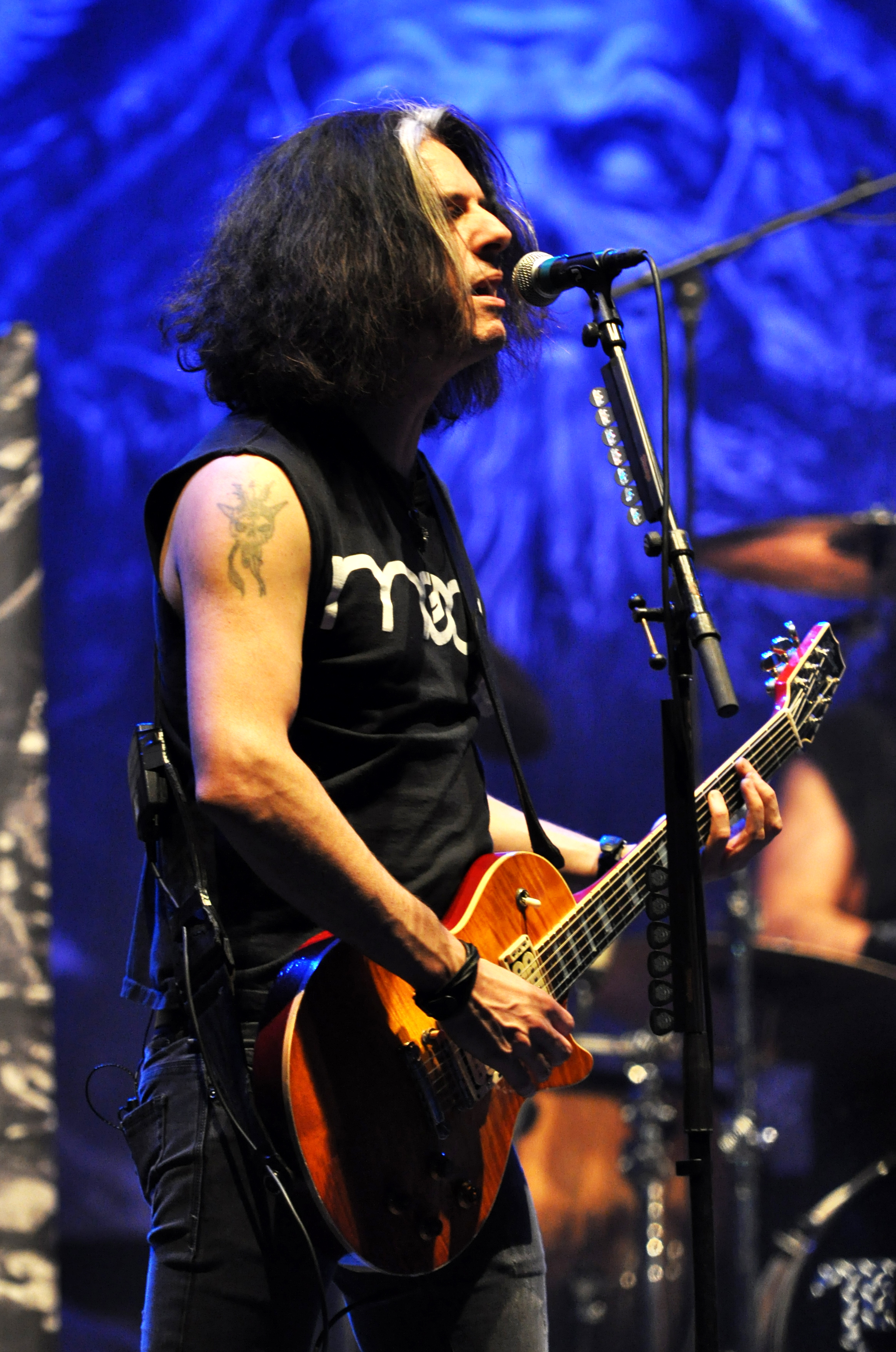 Alex Skolnick of Testament at Paspop 2013, Schijndel, NL